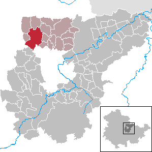 Berlstedt in Thuringia - District Weimarer Land